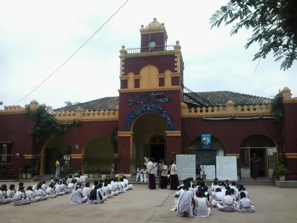 Our very own Vidya Niketan School Chhindwara and Hindi Pracharini Sameeti